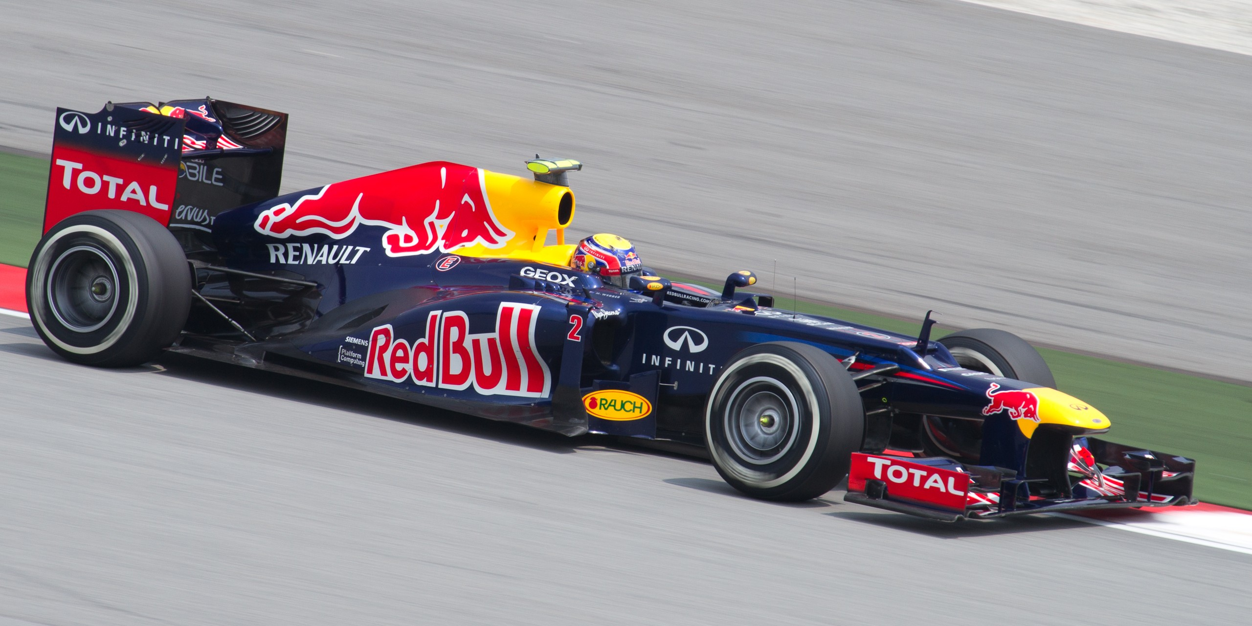 Formula One 2012 Rd.2 Malaysian GP: Mark Webber (Red Bull) during the second practice session on Friday.